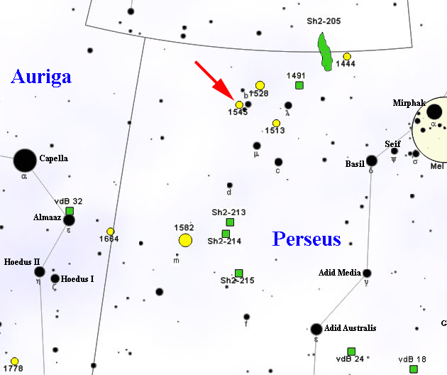 Map of NGC 1545